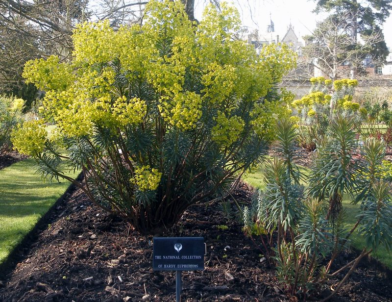 I wonder where the national collection of wimpy euphorbias is located?